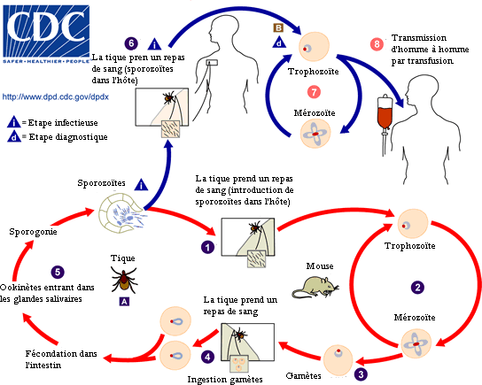 The life cycle of Babesia' , the causal agents of en: Babesiosis. Babesia_LifeCycle(French_version).GIF Traduction en français des légendes de l’image suivante : Babesia_LifeCycle.GIF The Babesia microti life cycle involves two hosts, which includes a rodent, primarily the white-footed mouse, Peromyscus leucopus. During a blood meal, a Babesia-infected tick introduces sporozoites into the mouse host . Sporozoites enter erythrocytes and undergo asexual reproduction (budding) . In the blood, some parasites differentiate into male and female gametes although these cannot be distinguished at the light microscope level . The definitive host is a tick, in this case the deer tick, Ixodes dammini (I. scapularis). Once ingested by an appropriate tick , gametes unite and undergo a sporogonic cycle resulting in sporozoites . Transovarial transmission (also known as vertical, or hereditary, transmission) has been documented for “large” Babesia spp. but not for the “small” babesiae, such as B. microti . Humans enter the cycle when bitten by infected ticks. During a blood meal, a Babesia-infected tick introduces sporozoites into the human host . Sporozoites enter erythrocytes and undergo asexual replication (budding) . Multiplication of the blood stage parasites is responsible for the clinical manifestations of the disease. Humans are, for all practical purposes, dead-end hosts and there is probably little, if any, subsequent transmission that occurs from ticks feeding on infected persons. However, human to human transmission is well recognized to occur through blood transfusions . Note: Deer are the hosts upon which the adult ticks feed and are indirectly part of the Babesia cycle as they influence the tick population. When deer populations increase, the tick population also increases, thus heightening the potential for transmission Obtained from the CDC Public Health Image Library. Image credit: CDC/Alexander J. da Silva, PhD/Melanie Moser (PHIL #3378), 2002.